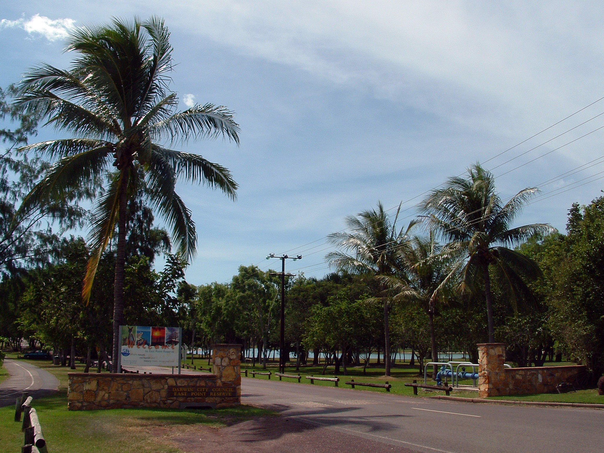 East Point Reserve entrance.